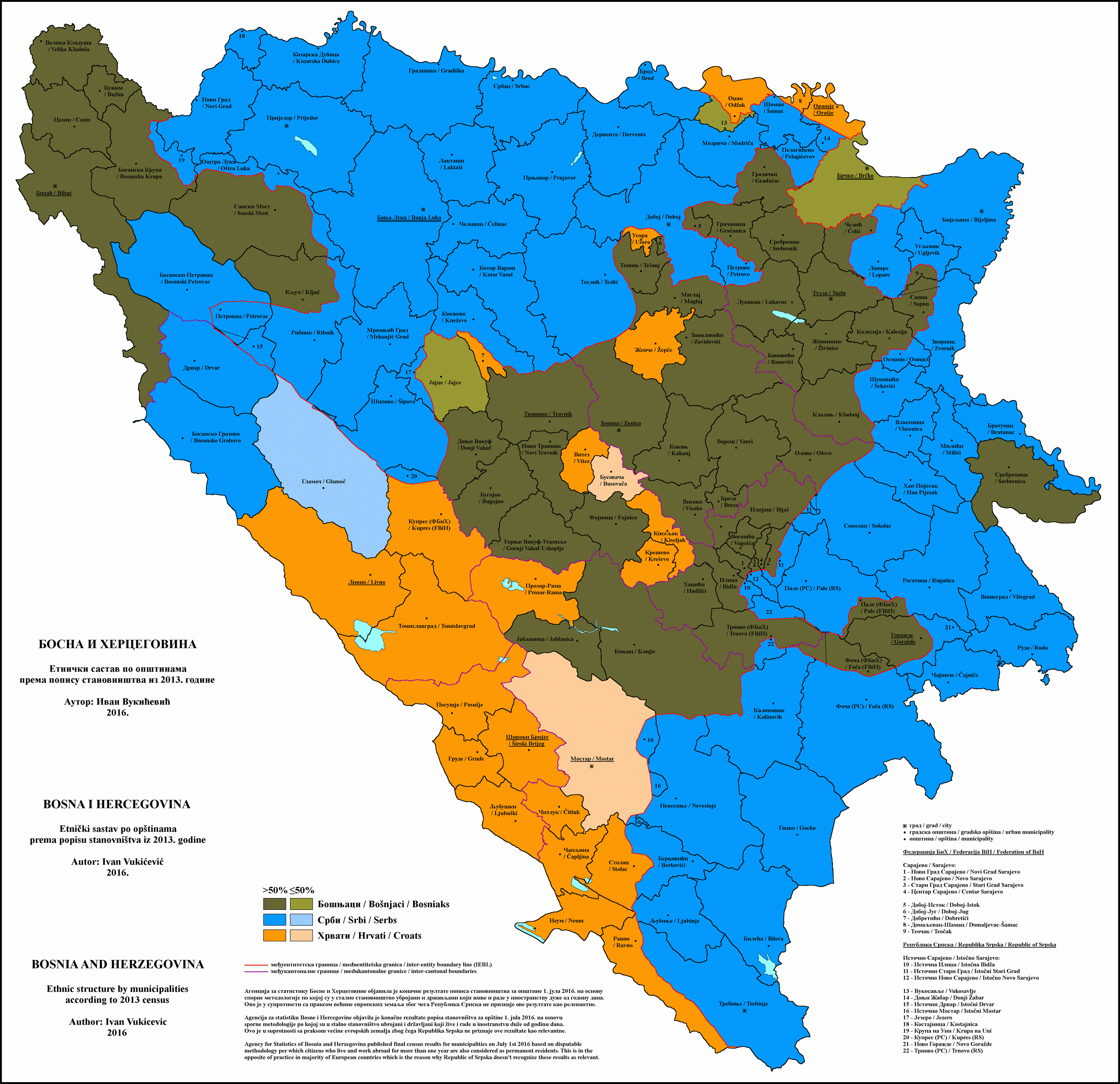 Ethnic structure of Bosnia and Herzegovina by municipalities 2013. Authorː Ivan Vukicevic - Sources: - Census of population, households and dwellings in Bosnia and Herzegovina, 2013 - Final results, Agency for statistics of Bosnian and Herzegovina, 1st of July 2016. - EU legislation on the 2011 Population and Housing Censuses, Eurostat, 2011. Recommendations for status of permanent residents followed by majority of EU member and candidate countries on page 66, Topic: Place of usual residence, paragraph (d)ː An institution shall be taken as the place of usual residence of all its residents who at the time of the census have spent, or are likely to spend, 12 months or more living there. - Public announcement, 4th of July 2016, Republic of Srpska Institute of Statistics, 4th of July 2016. With this announcement institute disputes the methodology used by Agency for statistics of Bosnia and Herzegovina.